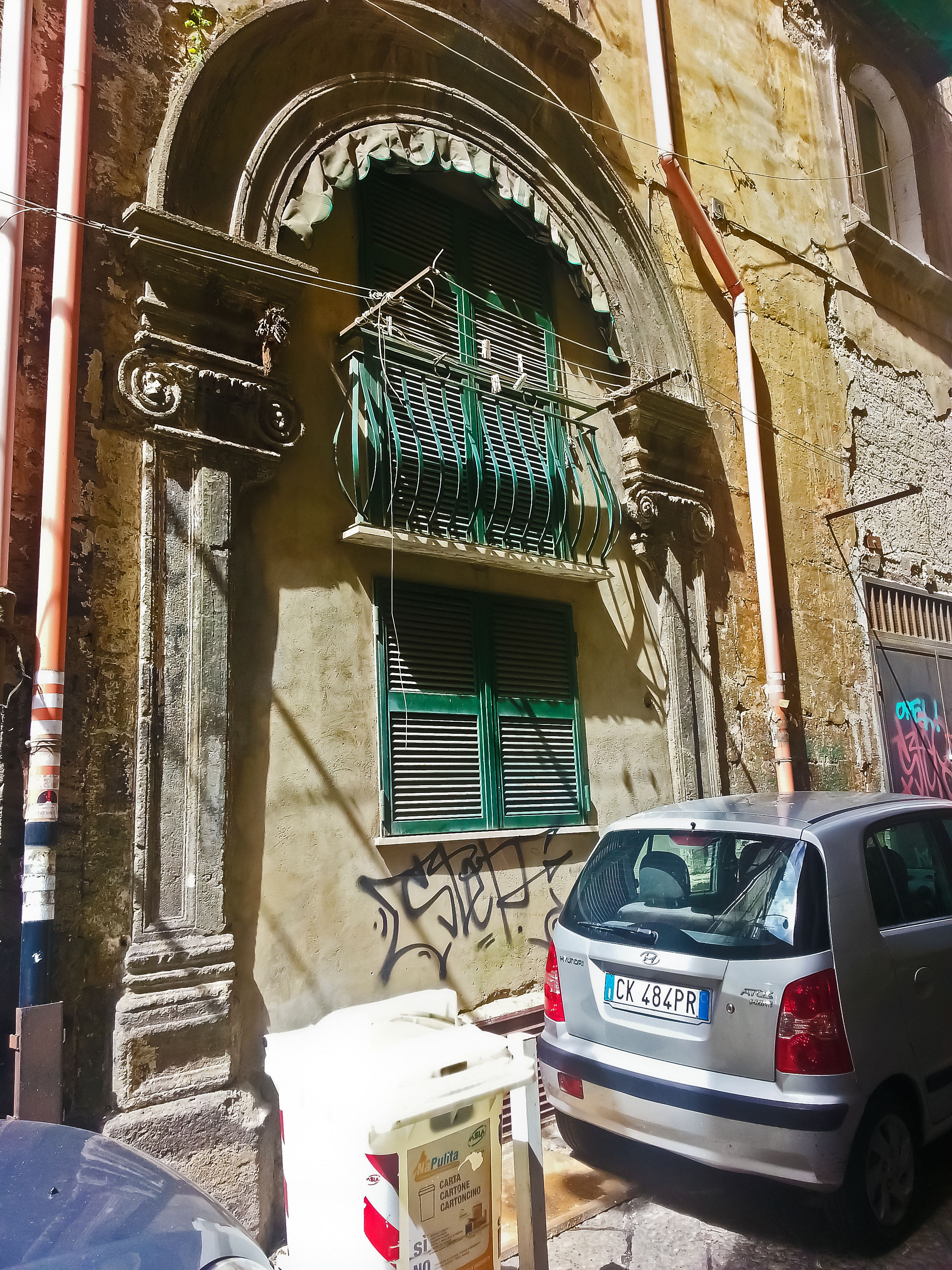 Portal